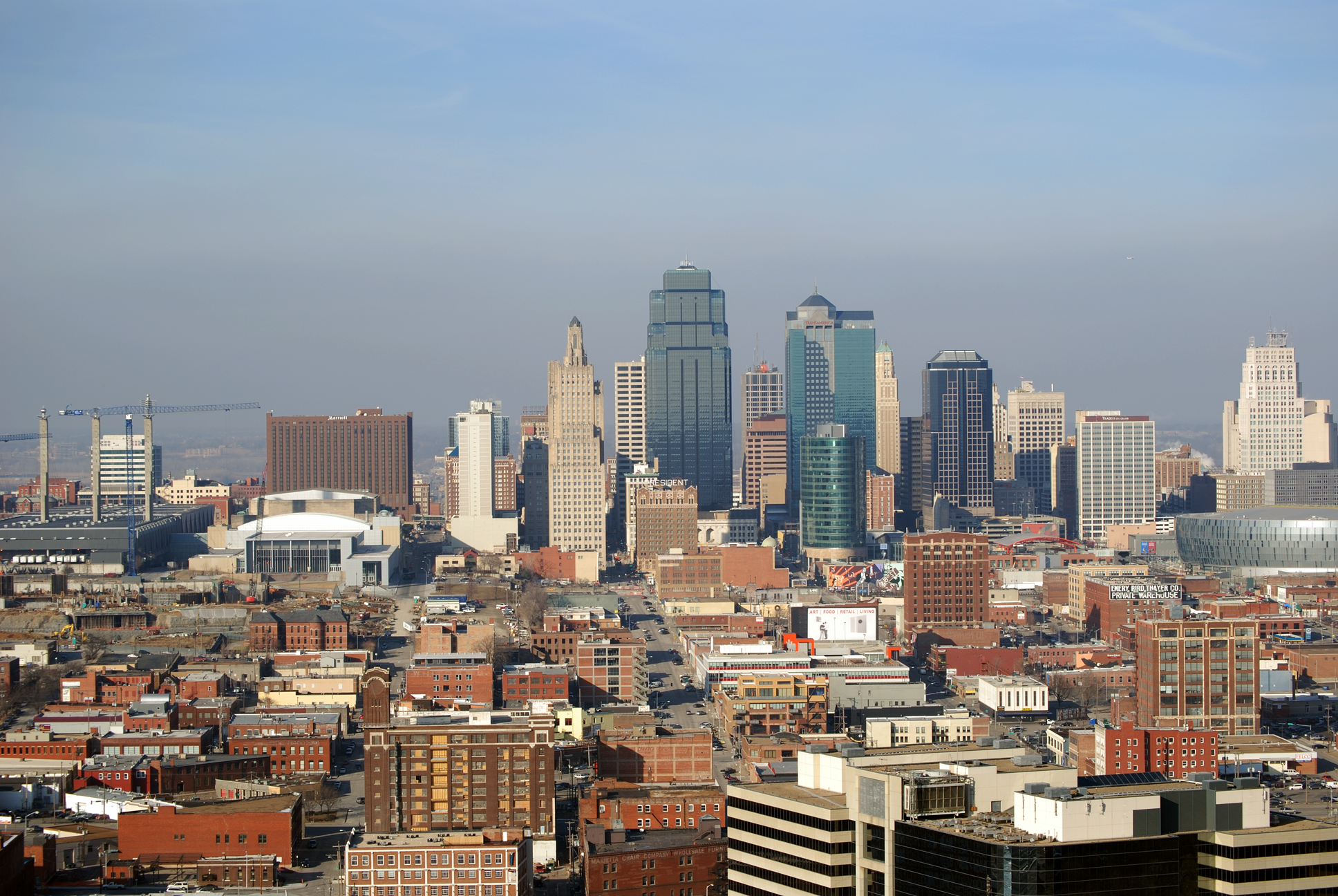 Picture taken from the Liberty Memorial in Kansas City, MO. High Resolution.